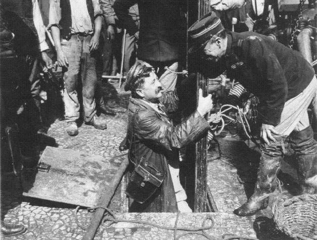 Photographer Joshua Benoliel. Lisbon